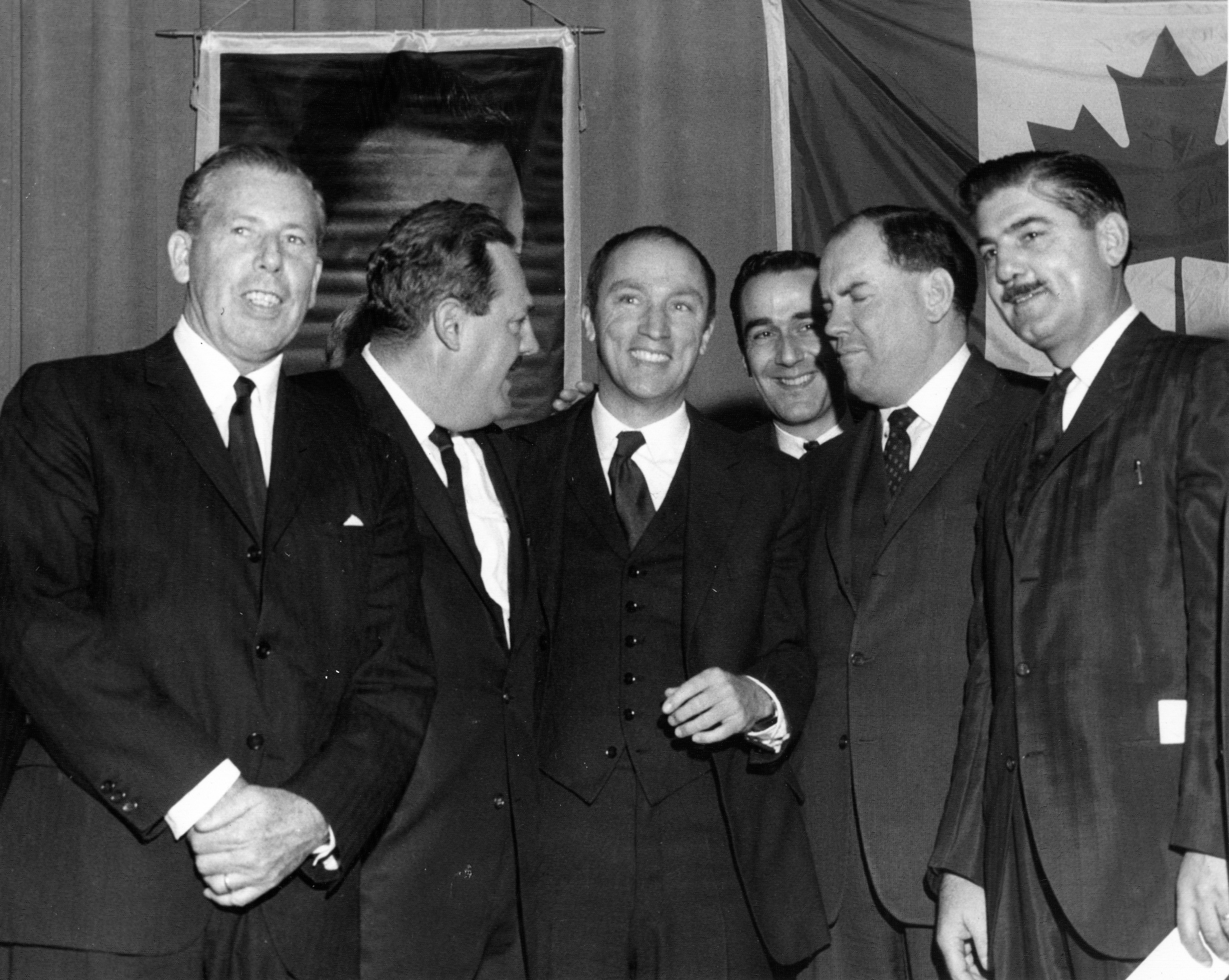 Pierre Elliot Trudeau after being nominated to represent riding of Town of Mount Royal circa 1965